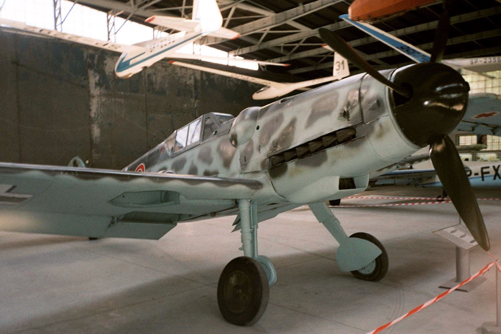 Bf 109 G-6 (owned by Fundacja Polskie Orły, on loan in the Polish Aviation Museum in Cracow).